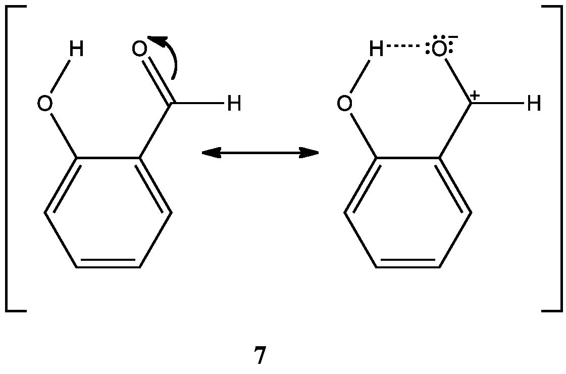 Created by Alexander Linsalata, 27 April 2010. Image shows the resonance stabilization of the Dakin oxidation ortho substrate